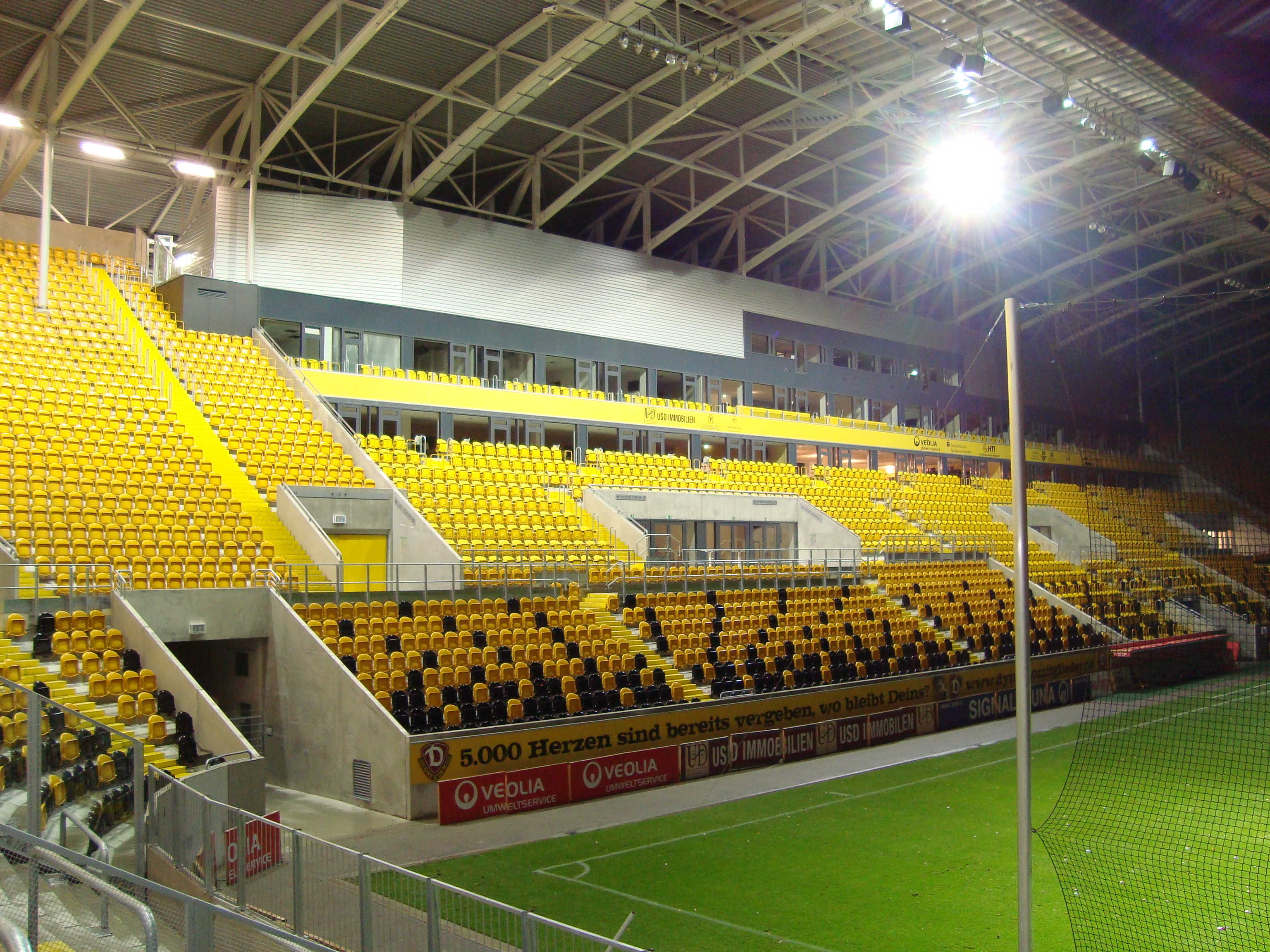 The Stand of the vip on the east side with the shine of the floodlight